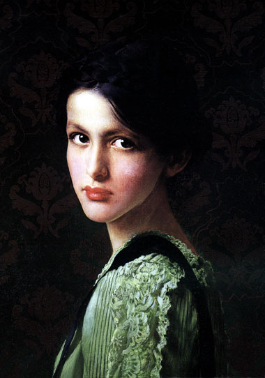 Ritratto di Paolina Bondi